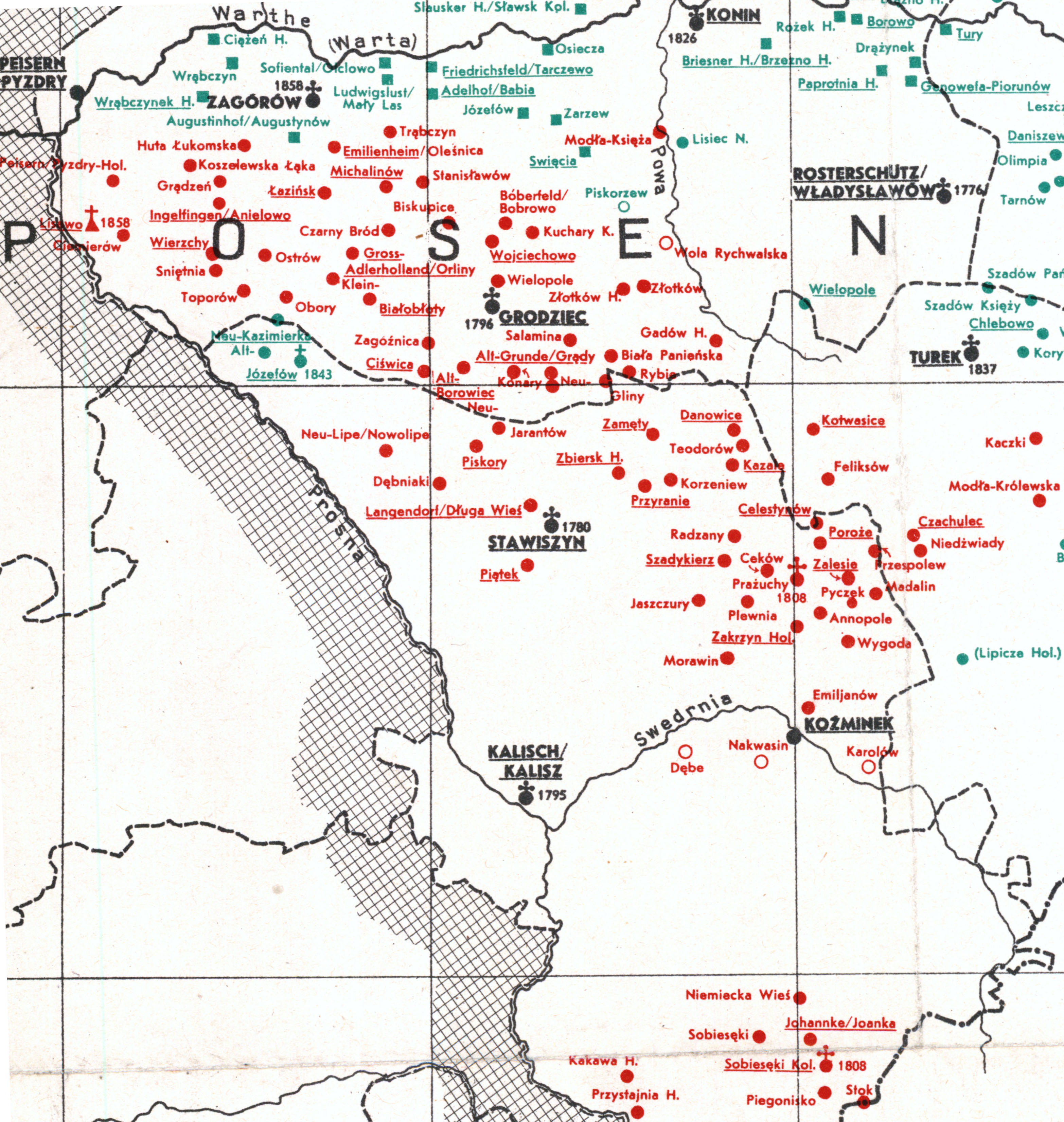 German settlements in 1938 between Kalisch, Władysławów and Turek in 1938